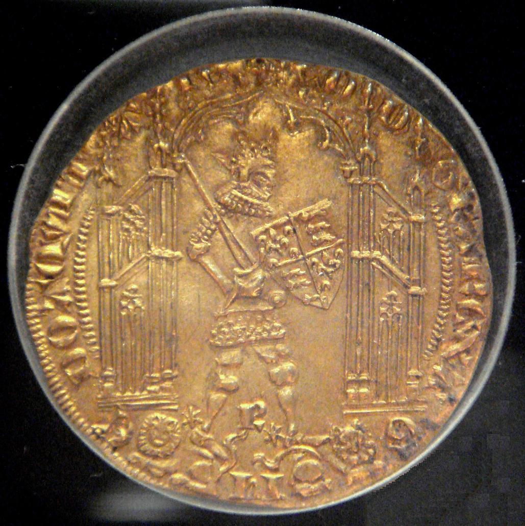 Coin of Edward_III as Duke of Aquitaine_3860mg